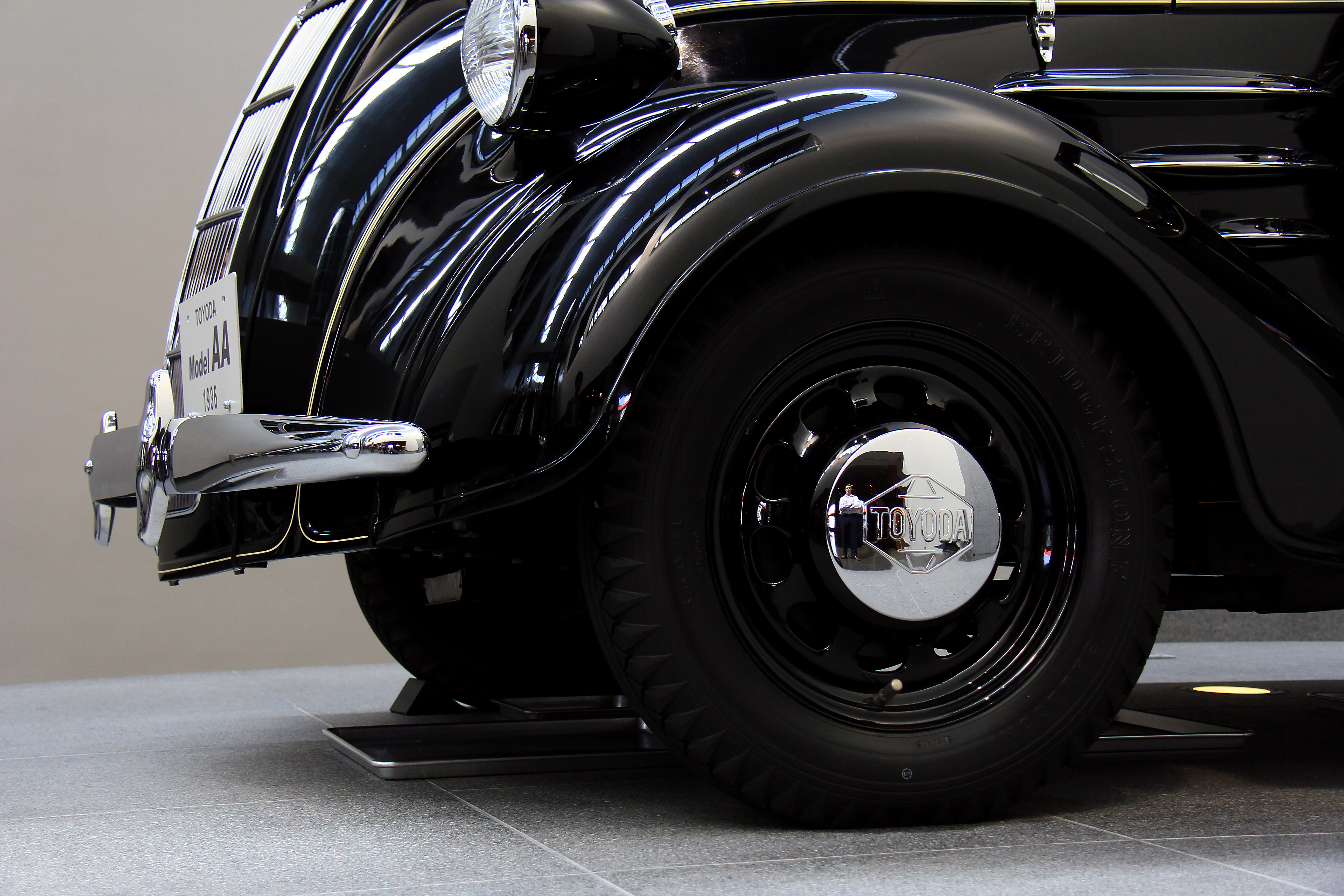 Hubcap of Toyota Model AA 1936, when Toyota was still called Toyoda